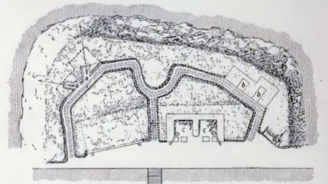 Diagram of a German blockhouse at Drie Grachten, 1917